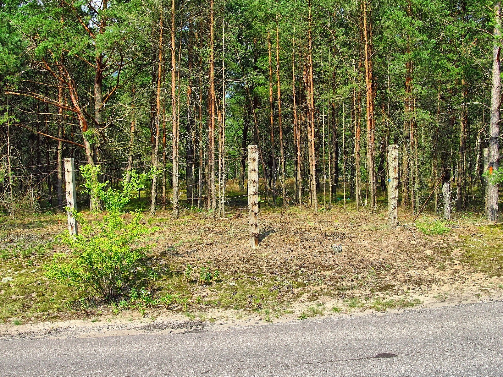 The remains of the former airport fence